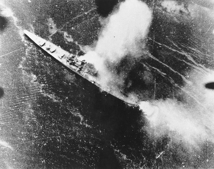 The Japanese heavy cruiser Chikuma photographed from a USS Saratoga (CV-3) Douglas SBD Dauntless gun camera, during the raid on Rabaul, 5 November 1943.